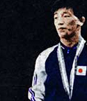 52 kg podium at the 1973 World Freestyle Wrestling Championships in Tehran